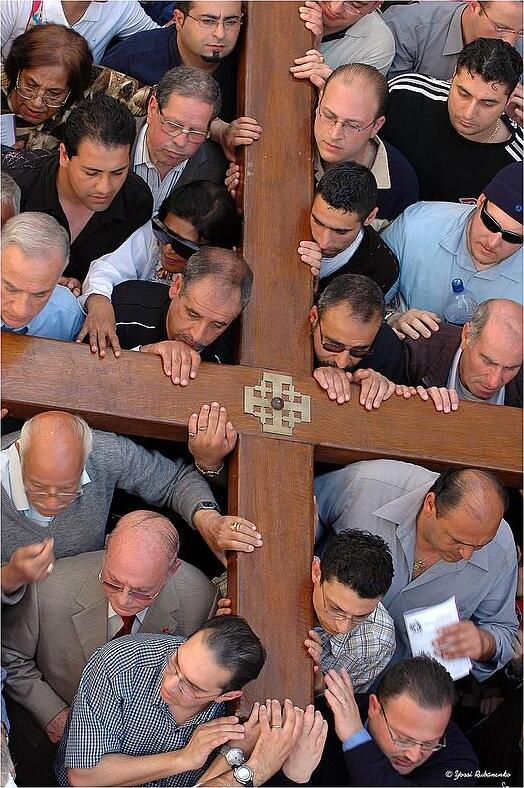 Jerusalem. Old City. Good Friday. Pilgrims.